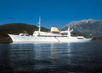 luxury yacht Christina O